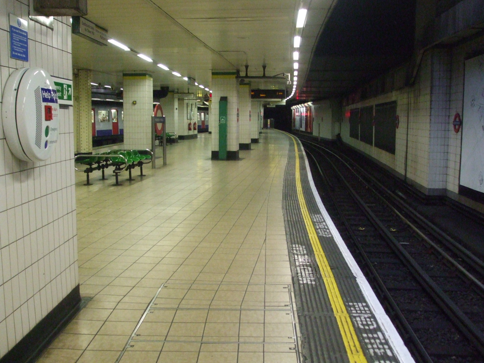 Mansion House tube station westbound platform looking east, with the terminating platform on the left. An eastbound through train is visible on the far left.